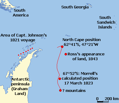 Map of Antarctica and the supposed coastline of New South Greenland as described by Benjamin Morrell in red